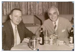 A photo taken of Charlie O. Finley & Carl A. Finley at the restaurant where they met, the night Carl signed the contract to be a part owner of the Kansas City A's.